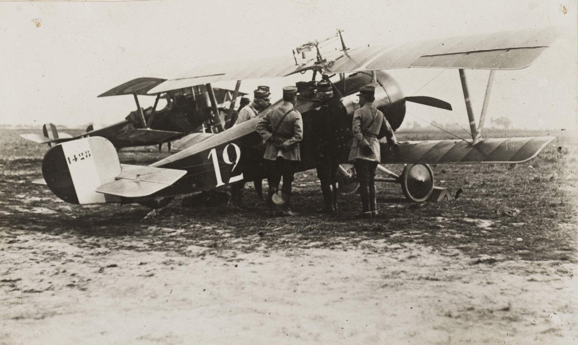 During the battle of the Somme. General Joffre congratulates the fighter pilot René Dorme over his latest victory.